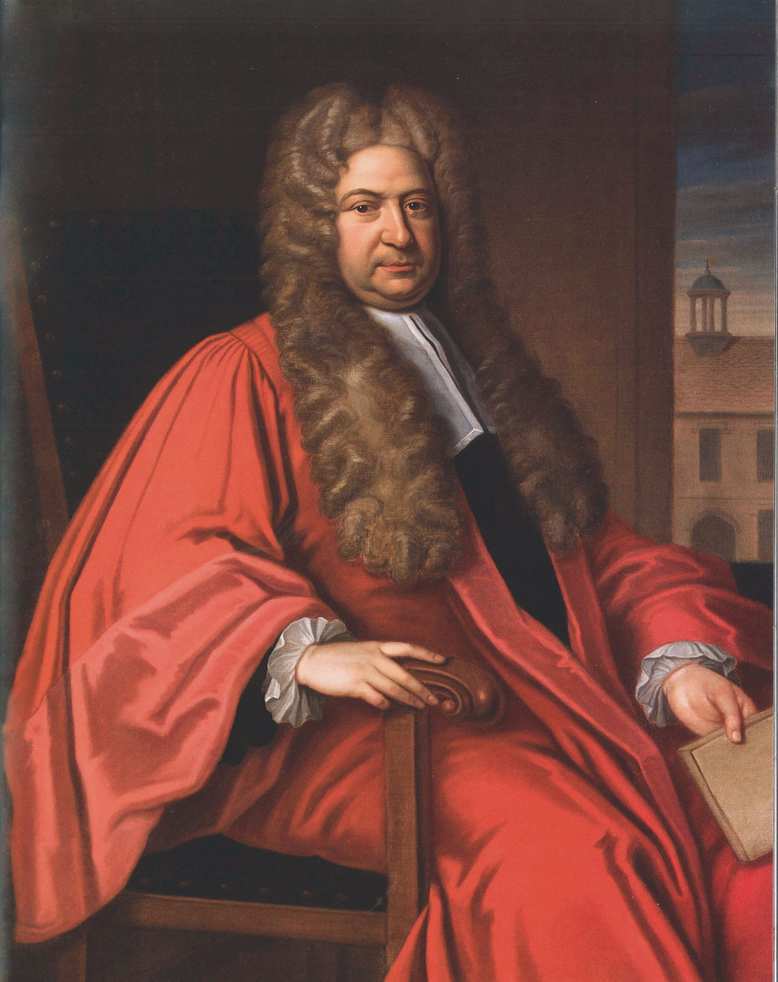 Posthumous portrait of Sir Nathaniel Lloyd (1669-1745), Benefactor, Master of Trinity Hall, Cambridge (with Trinity Hall in the background)